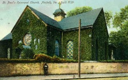 St Paul's - Public domain- a 100+ Year old post card post-dated 1907.